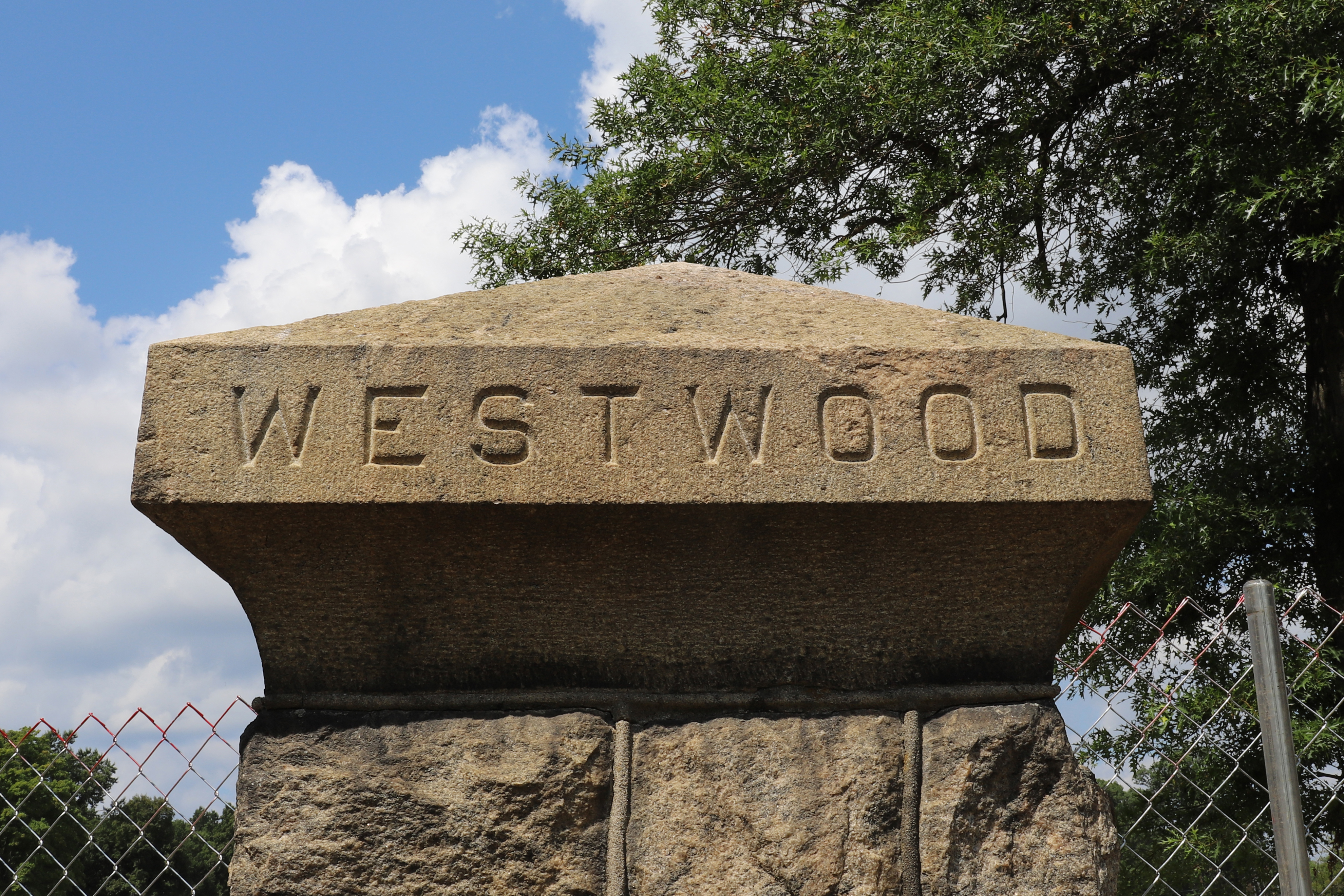 Westwood marker at the entrance of McGuire Cottage on Brook Rd. in Sherwood Park